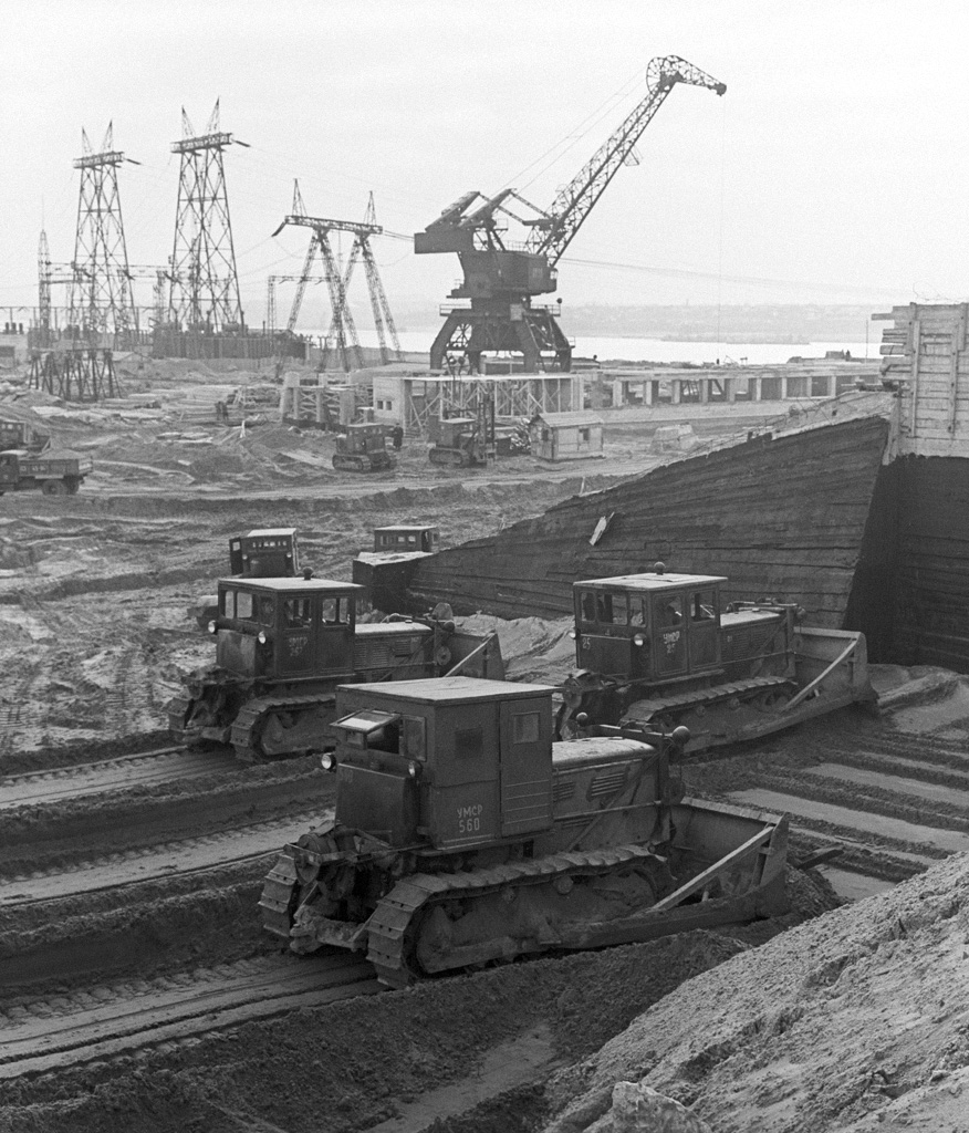 “Construction of Volzhskaya hydro power plant”. Bulldozers clearing up the site for the Volzhskaya hydro power plant (now Volzhskaya hydro-electric power plant).